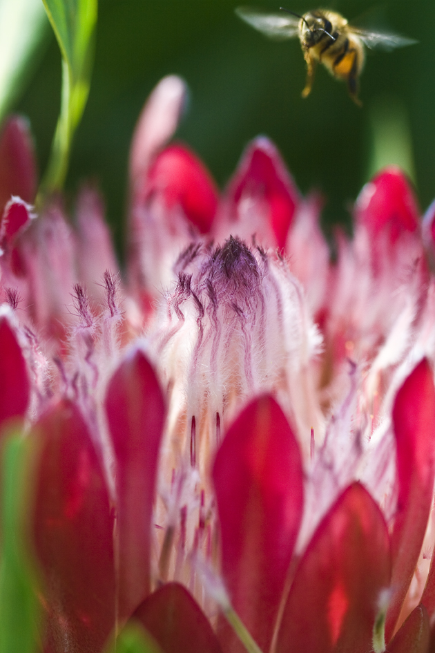 A bee coming in for a landing on a beautiful big Protea flower